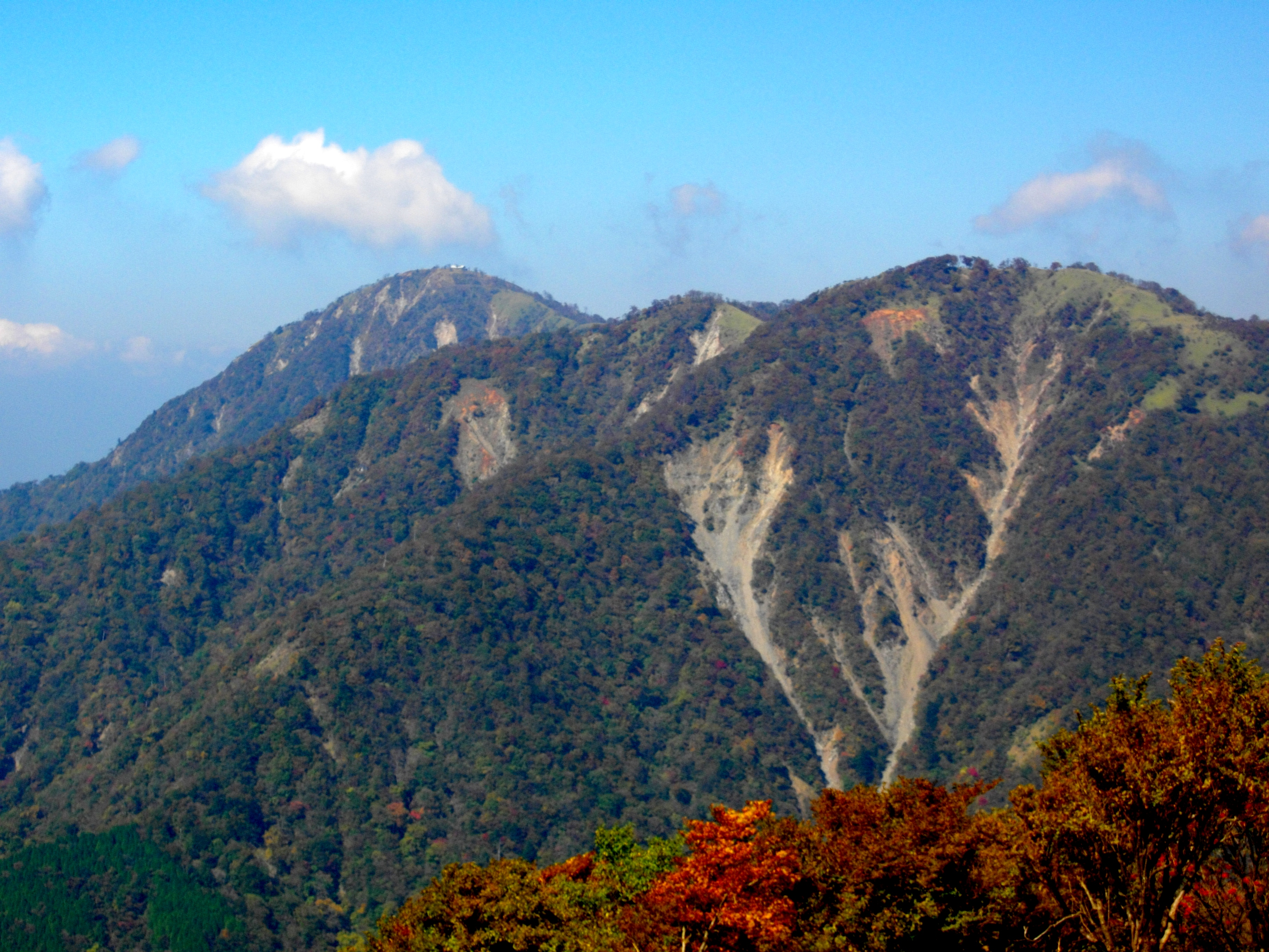 Northside of Mount To, of Tanzawa Mountains, Honshu, Kanagawa, Japan.